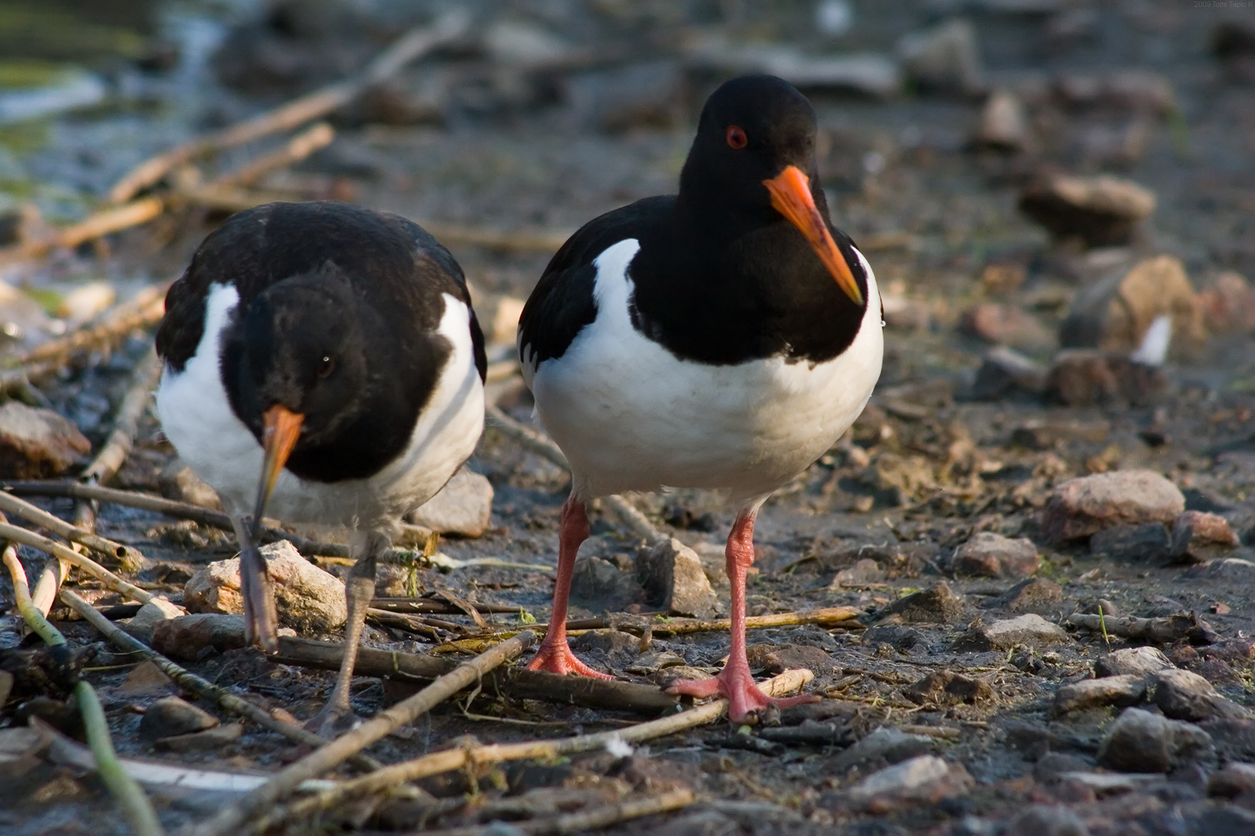 Eurasian Oystercatcherd in Helsinki, Finland. Oystercatcher parent on right and juvenile on left on a small sandy beach.